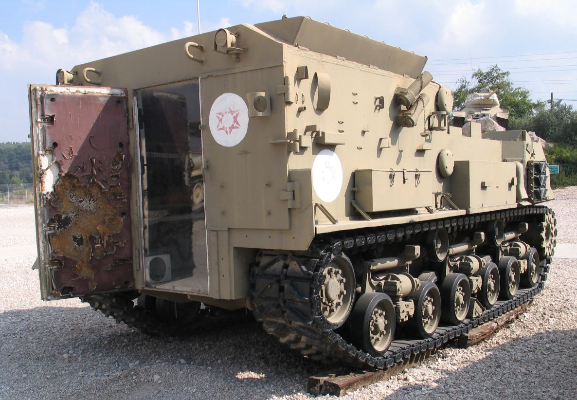 Description: Israeli medevac vehicle on M4 Sherman tank chassis in Yad la-Shiryon Museum, Israel. 2005. Source: Photo by me, User:Bukvoed.